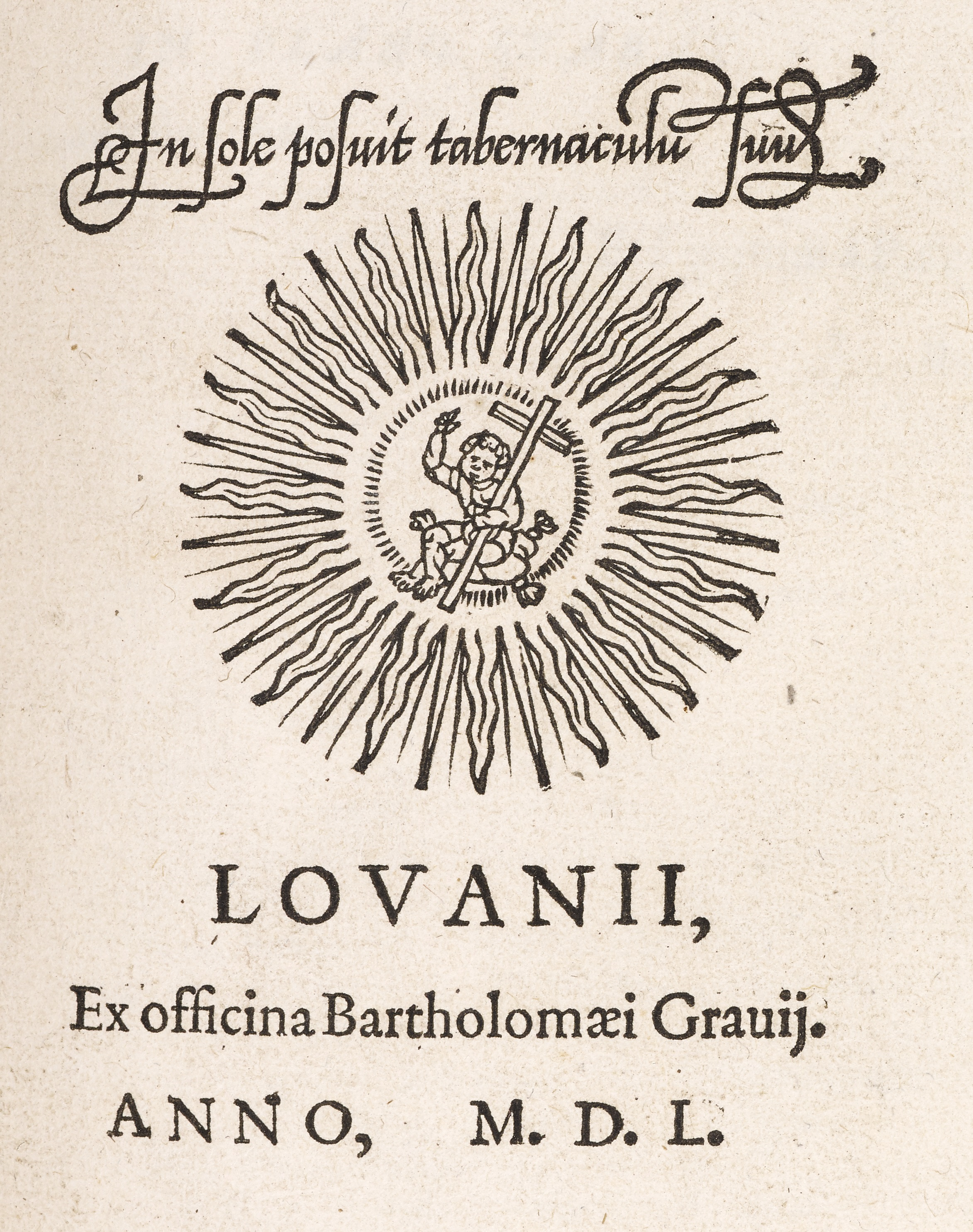 Printer's mark of Bartholomaeus Gravius